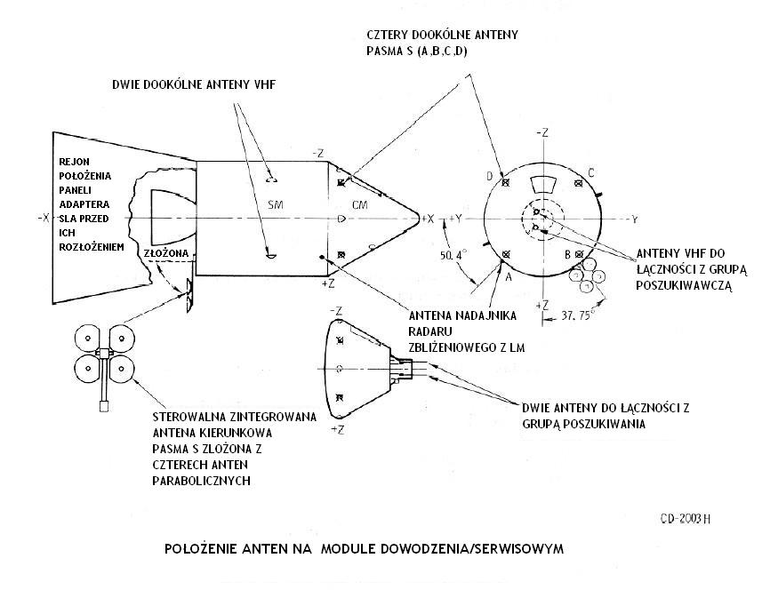 Antenna locations on Command/Service Module in Apollo program